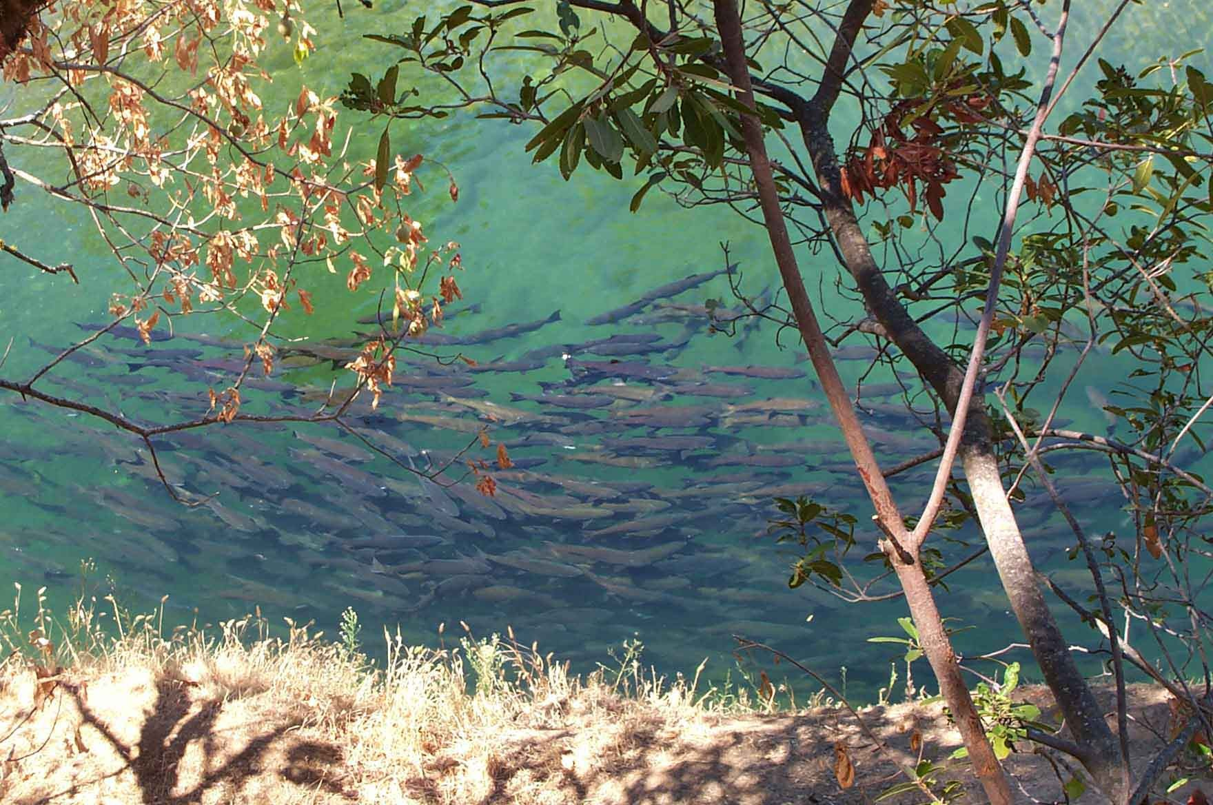 Spring Run Chinook in Butte County. Photo by Harry Morse.